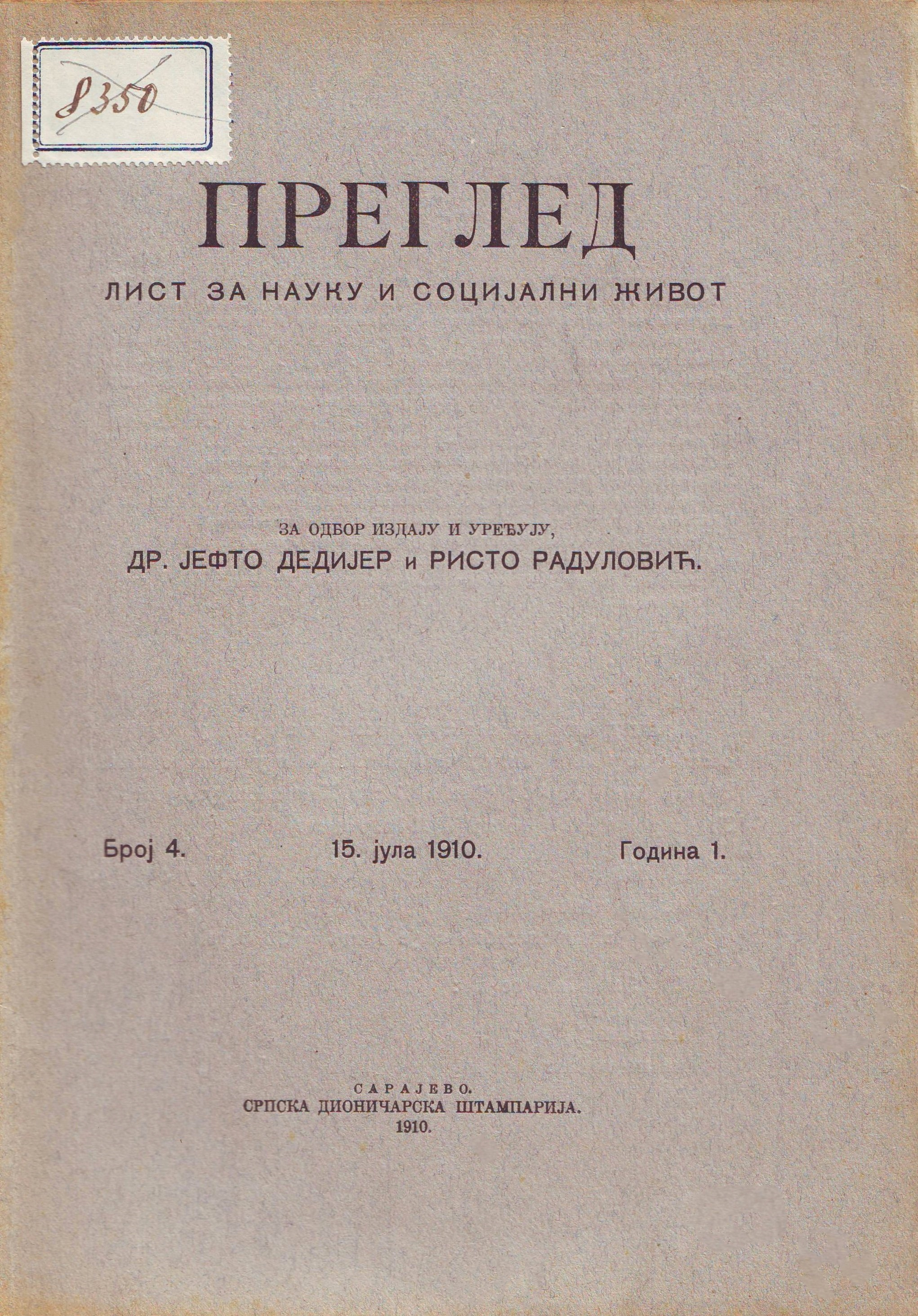 Cover of Issue 4 of the Journal for science and social life Pregled from 15 July 1910. Srpski (latinica): Naslovna strana 4. broja časopisa za nauku i socijalni život Pregled od 15. jula 1910.